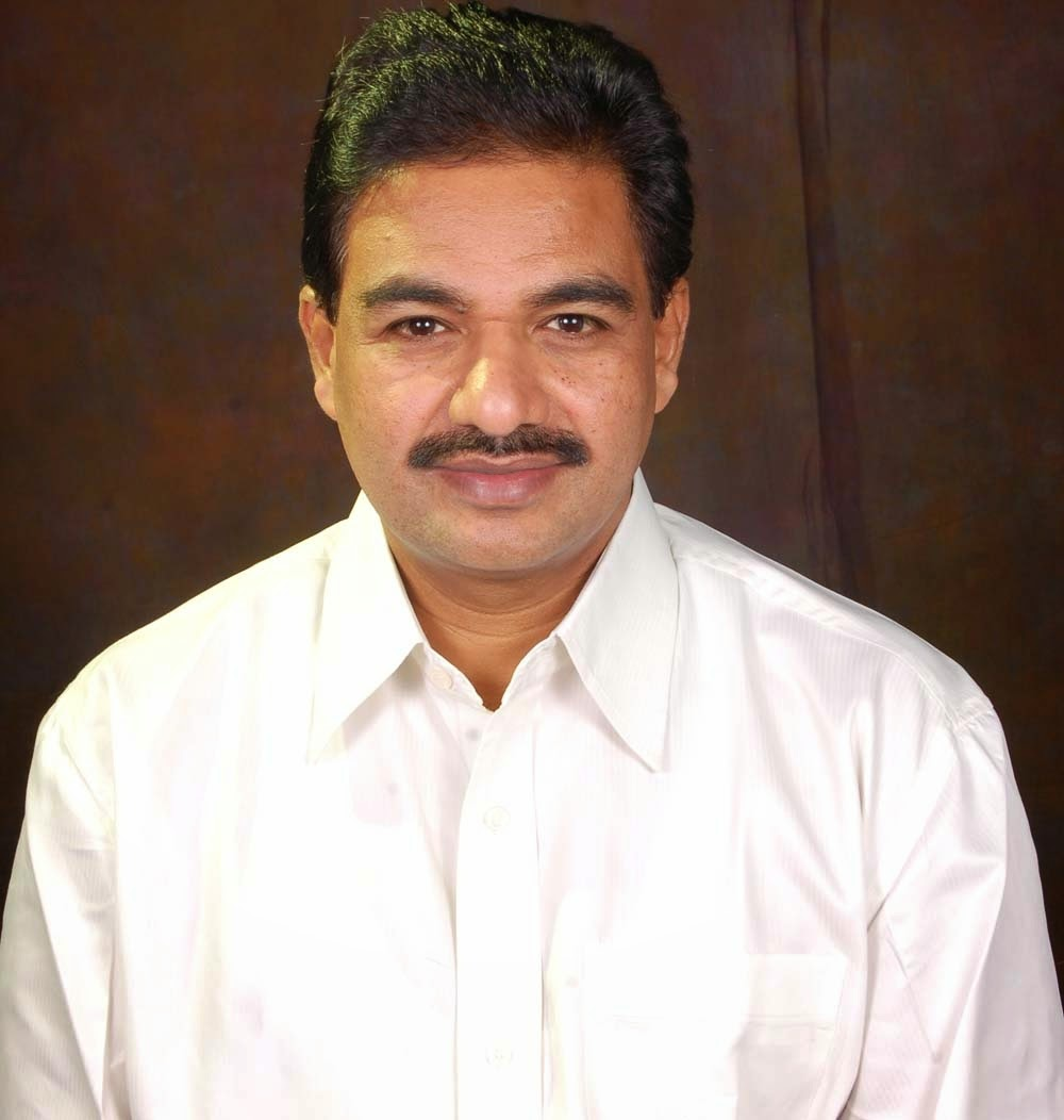 In his home the pic was taken.